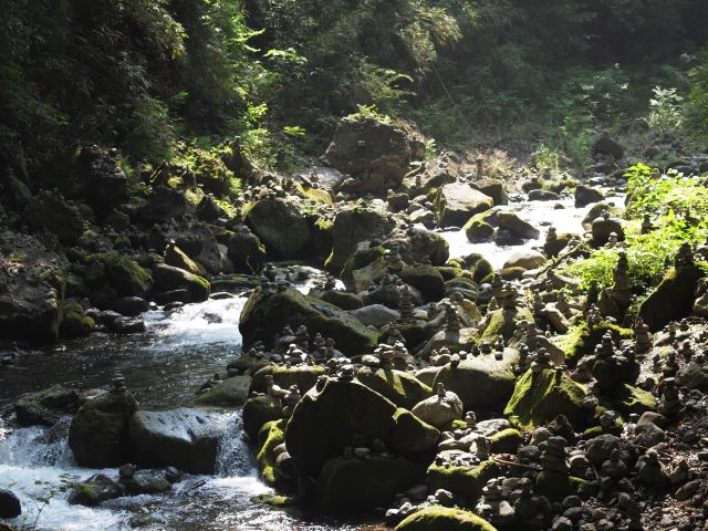 Takachiho, Miyazaki Pref., Japan